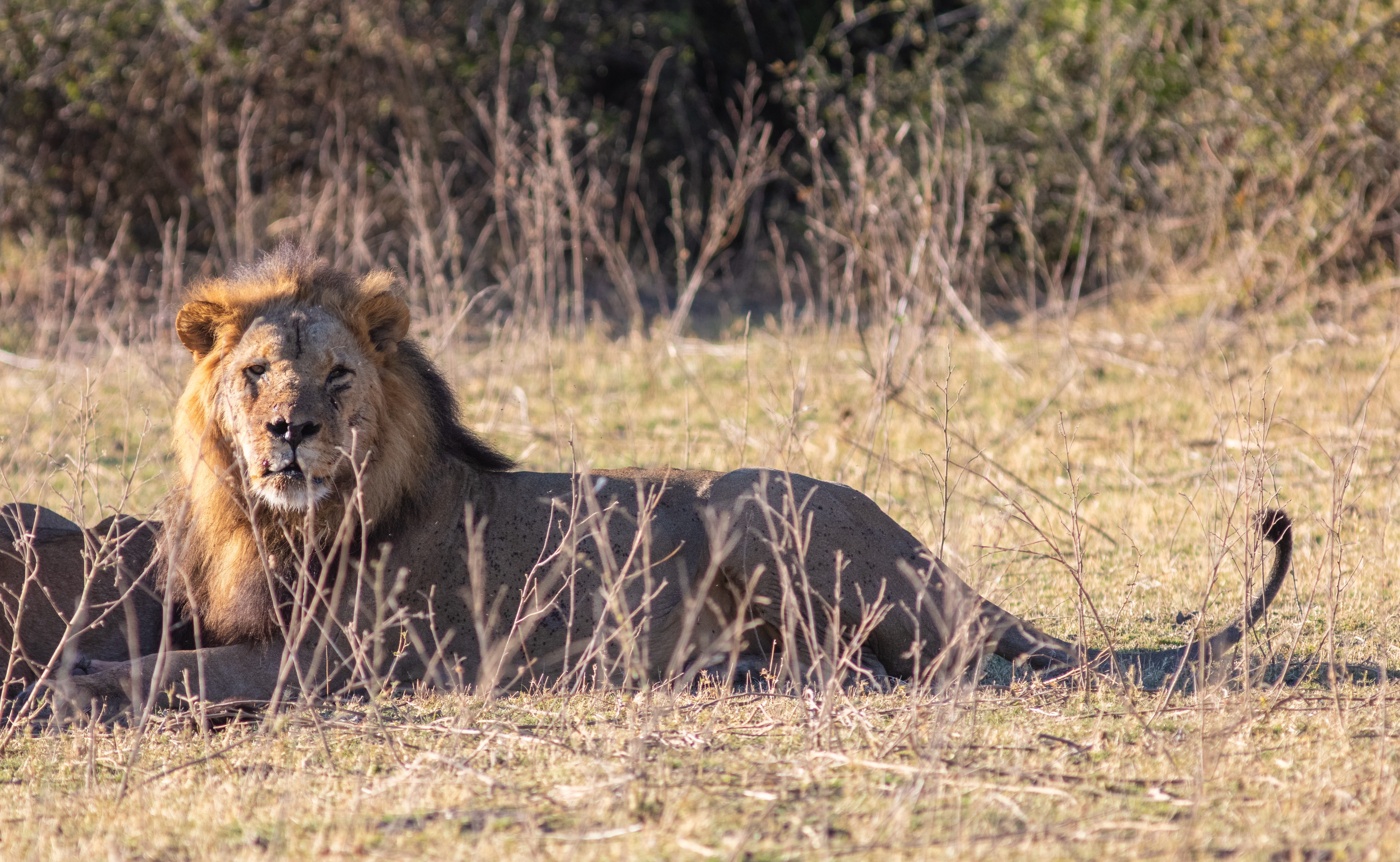 Lion (Panthera leo), Chobe National Park, Botswana